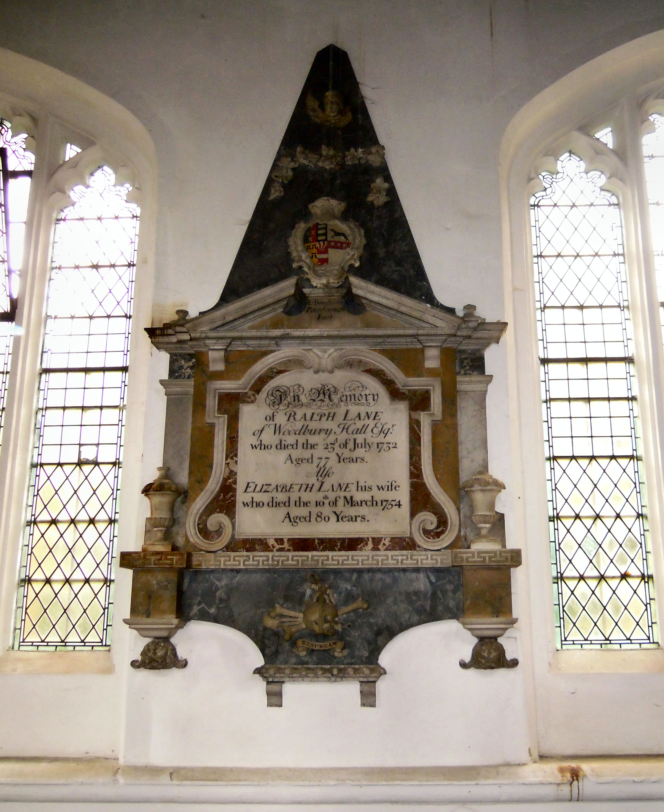 The 18th-century polychromatic wall monument to Ralph and Elizabeth Lane in the Church of St Mary the Virgin in Gamlingay in Cambridgeshire